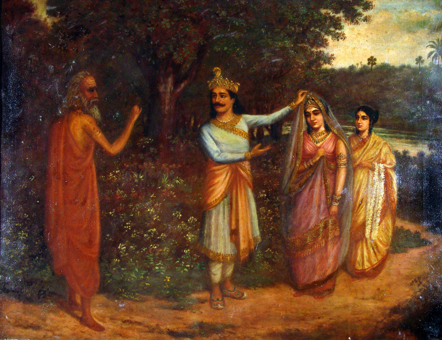 Oil painting on canvas by Bamapada Banerjee depicting a sequence from - Sakuntalar Pati Jatra i.e. Sakuntala leaving for his husband king Dushmanta's palace.